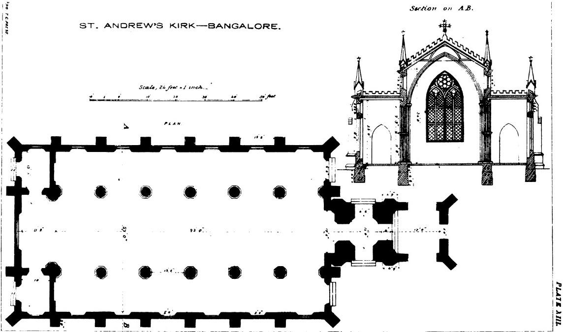 Plan of the St. Andrew's Kirk, Bangalore (1867), from Professional Papers on Indian Engineering: Volume IV